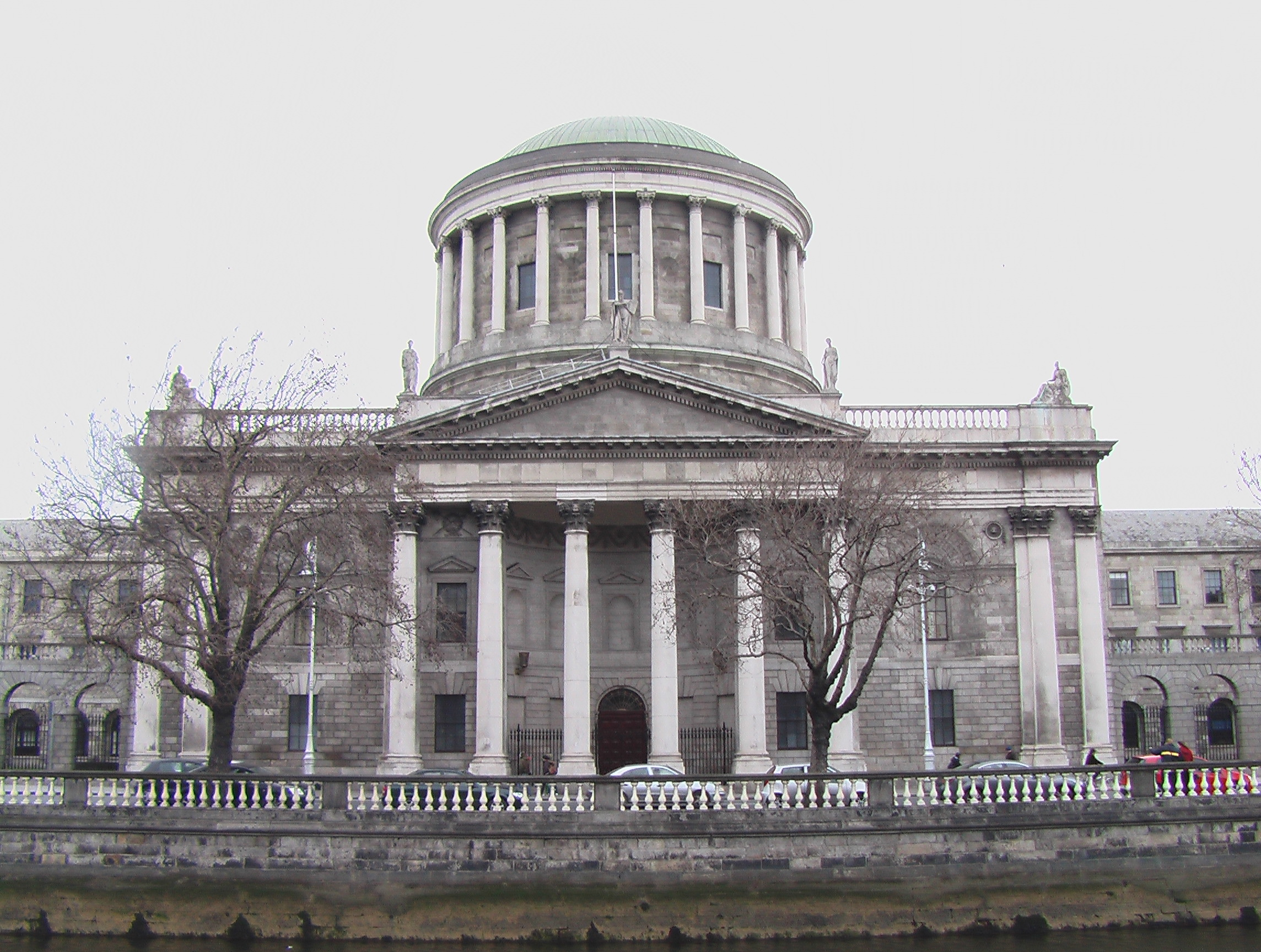 Four Courts, Dublin, 1796-1802